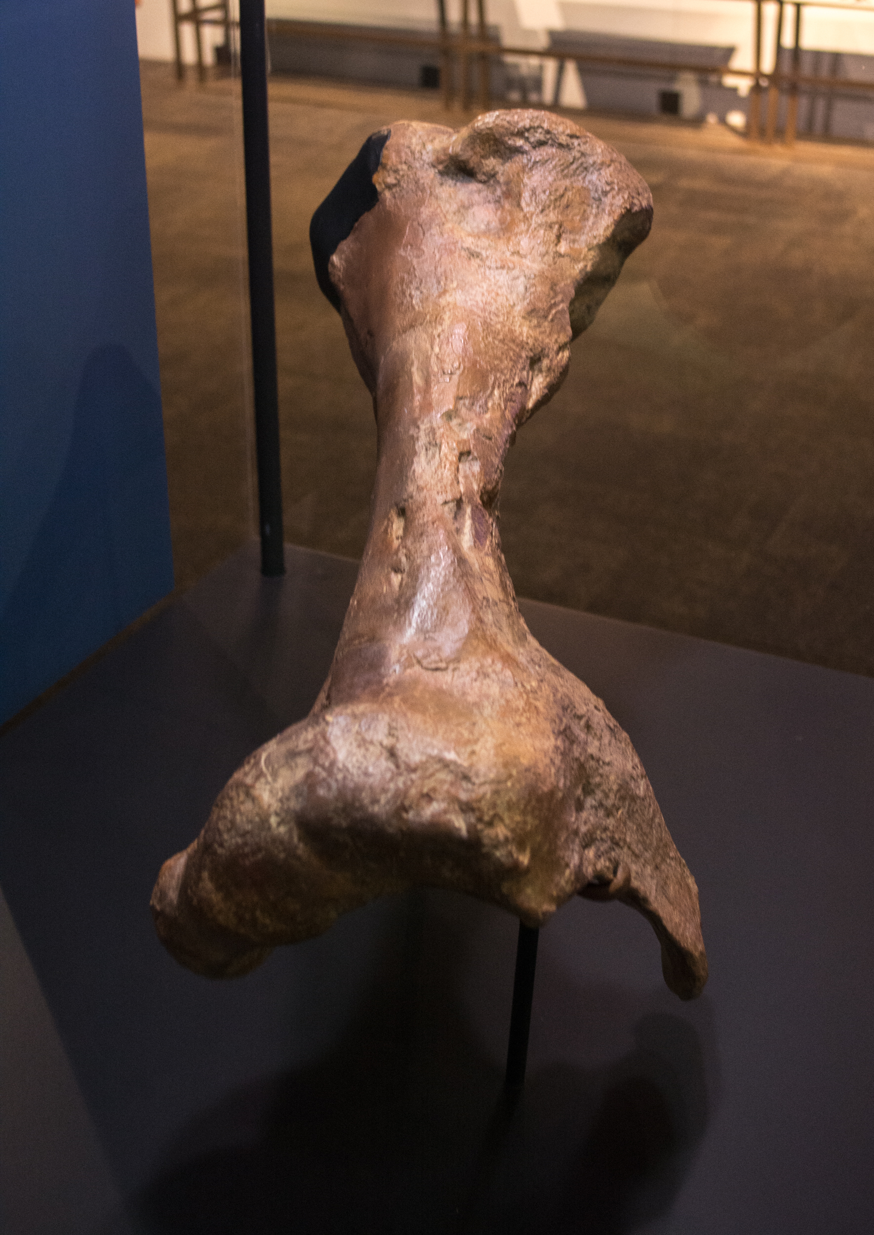 Cast of Quetzalcoatlus northropi humerus 01 - Pterosaurs Flight in the Age of Dinosaurs